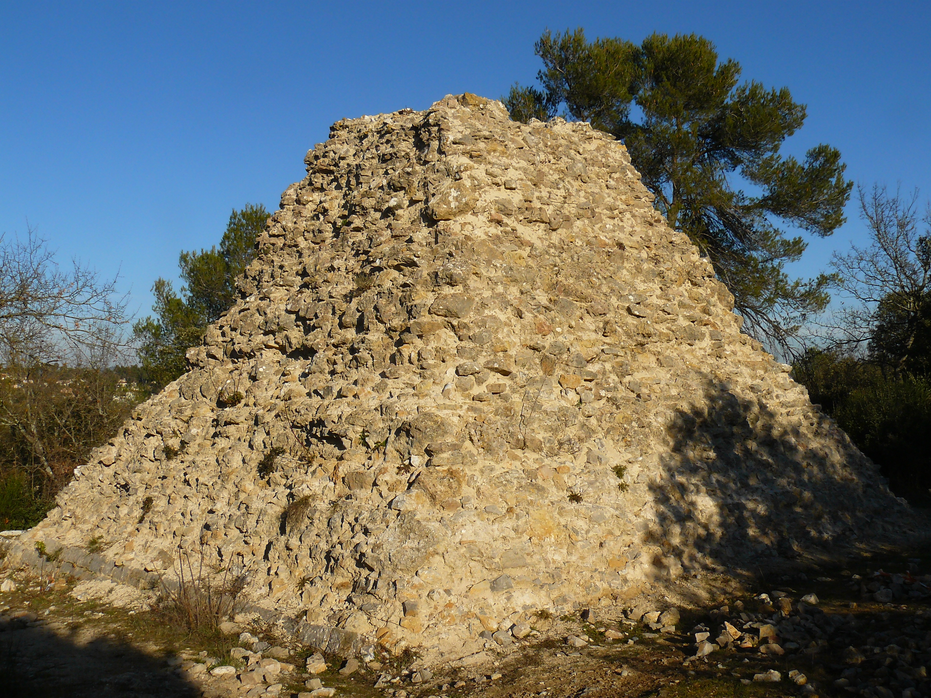 This building is indexed in the Base Mérimée, a database of architectural heritage maintained by the French Ministry of Culture, under the references IA83000413 and PA00081764 .